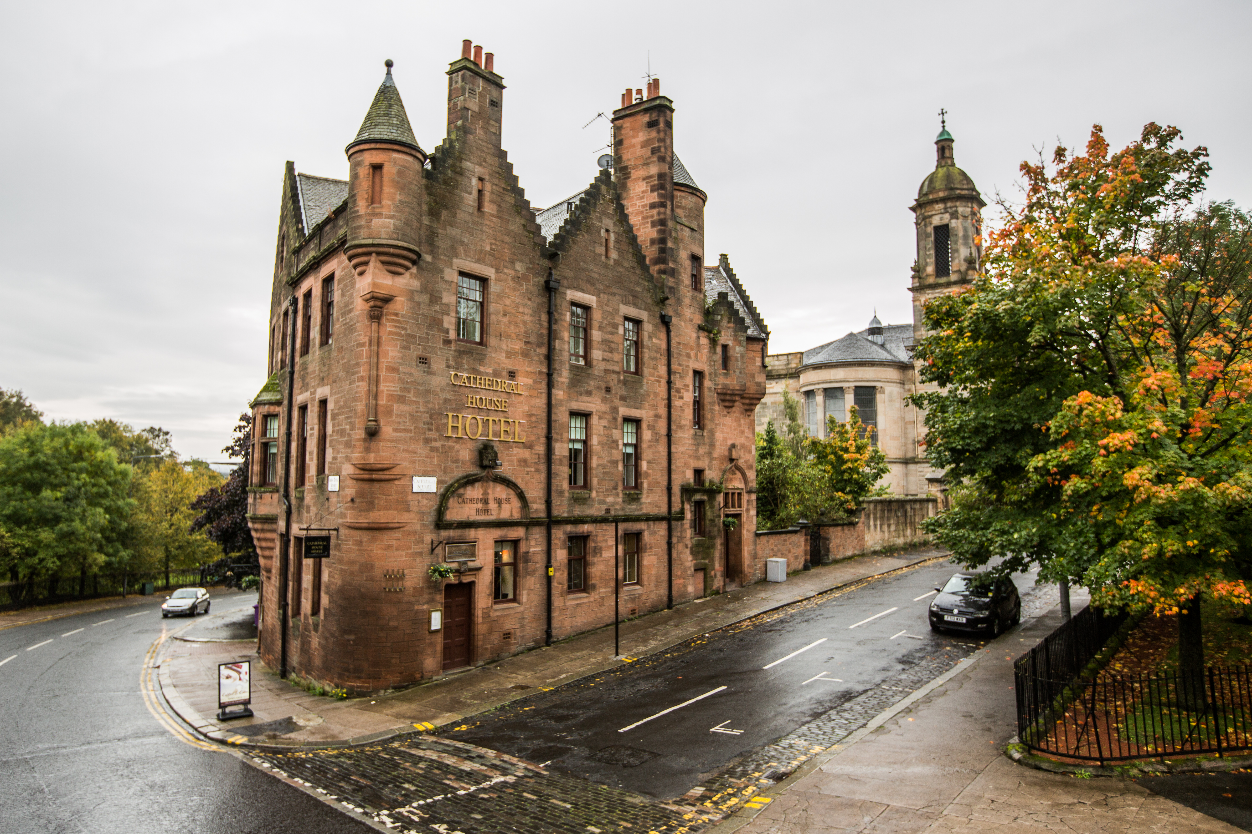 Cathedral House Hotel, Glasgow, Scotland